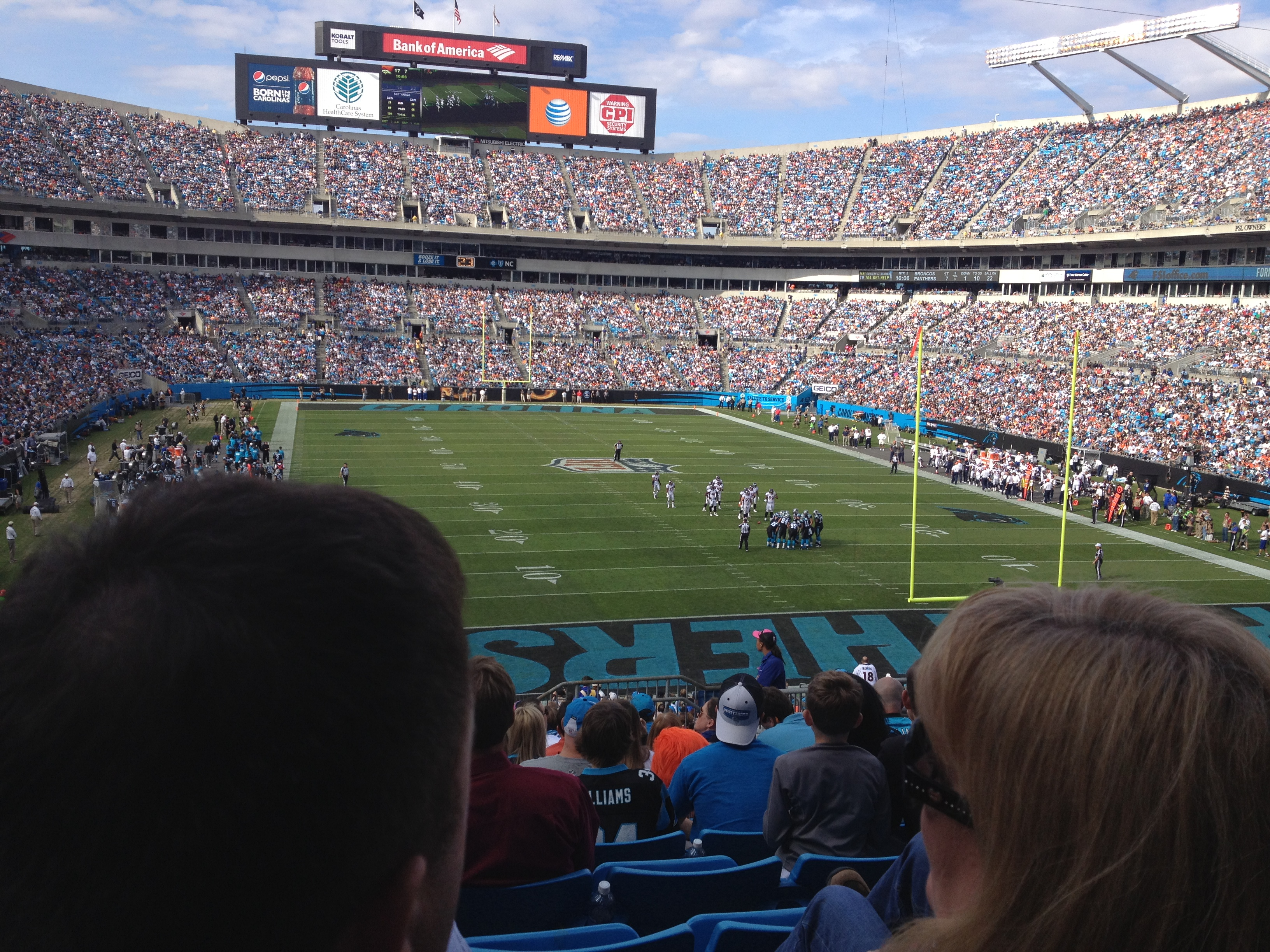 The Carolina Panthers take on the Peyton Manning led Denver Broncos in Charlotte, North Carolina